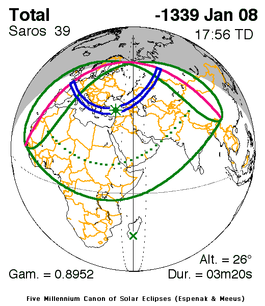 Solar eclipse map of path on earth. Solar eclipse of January 8, 1340 BC